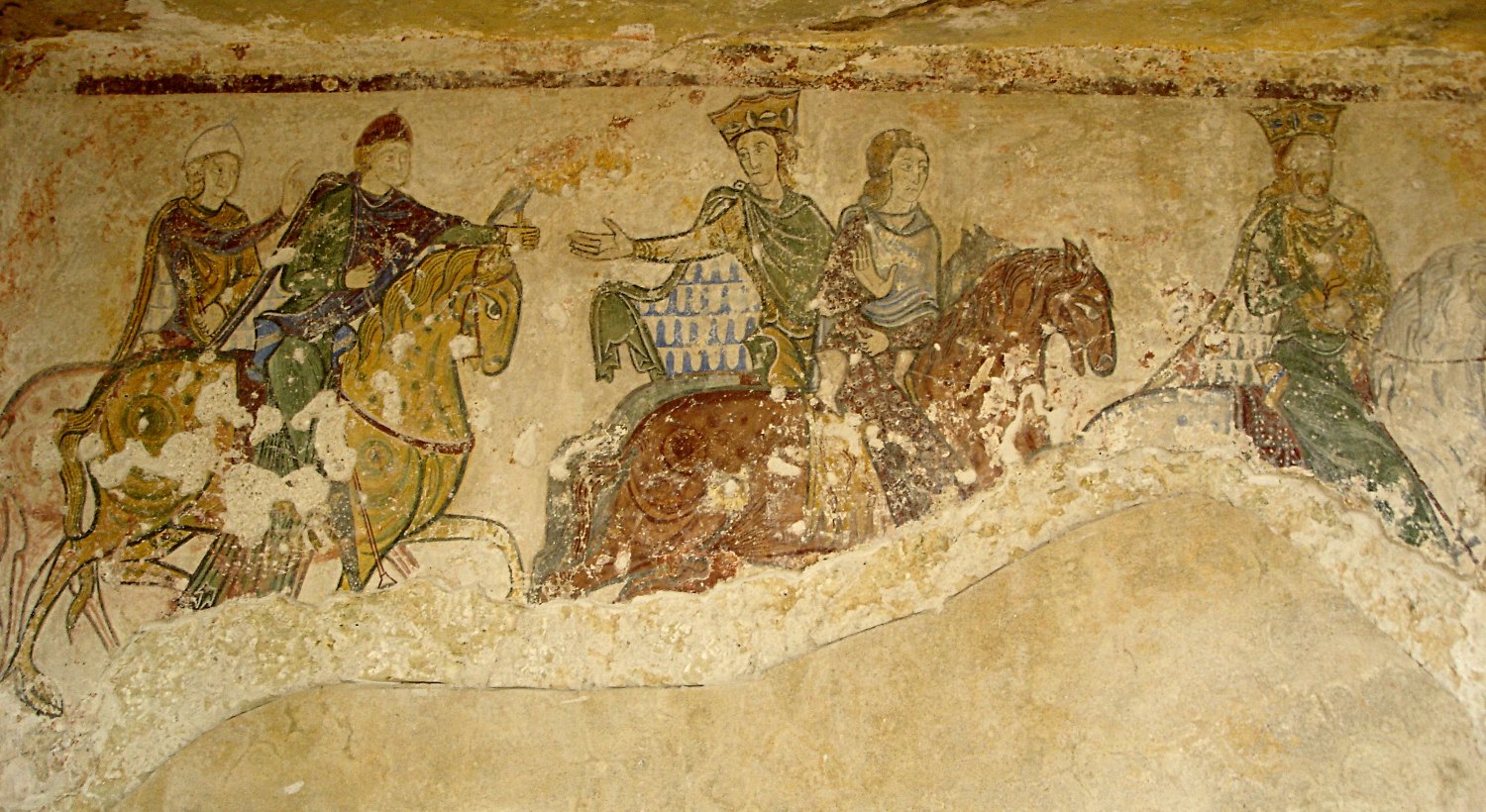 Mural in Chapelle Sainte-Radegonde de Chinon (Chapel of Saint Radegund in Chinon, France). The people depicted are traditionally thought to represent Eleanor of Aquitaine, Henry Plantagenet, and their children (see source note below)